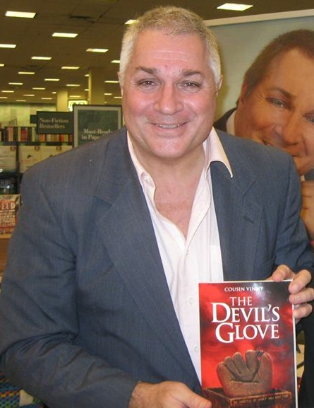 person pictured taken with his own camera at his request.